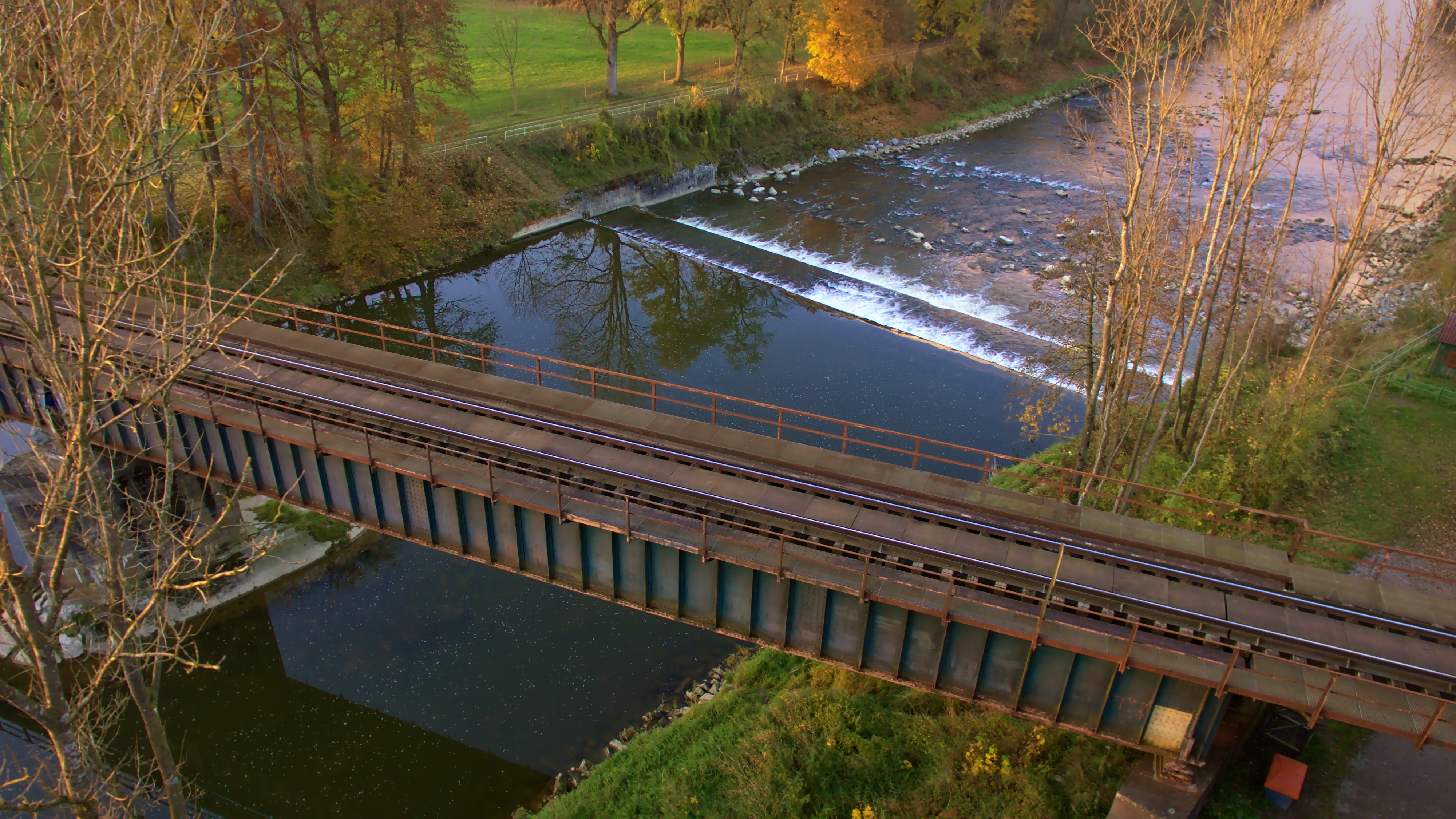 Iller railway bridge at Buxheim.